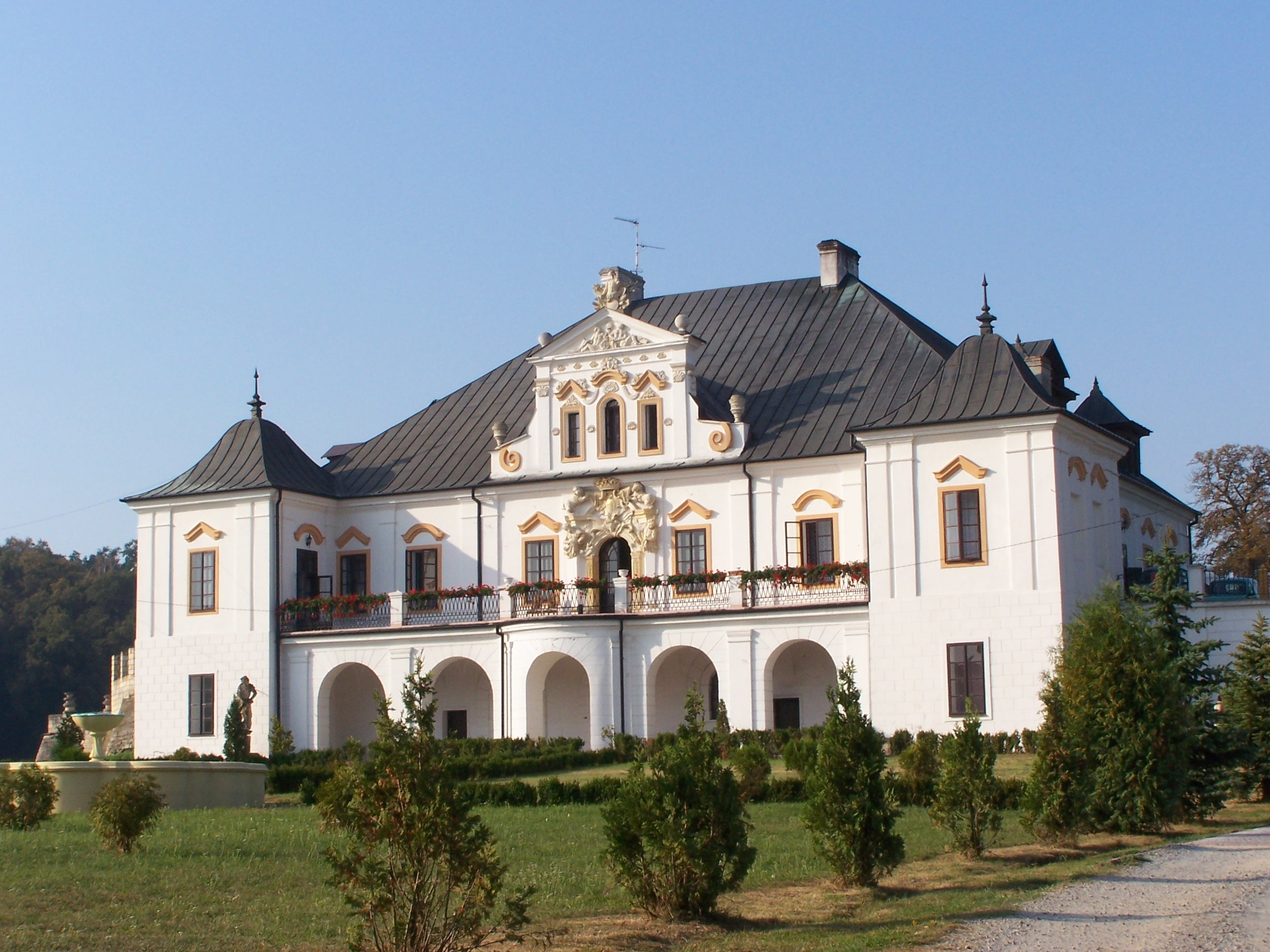 The palace in Czyżów Szlachecki (Poland).